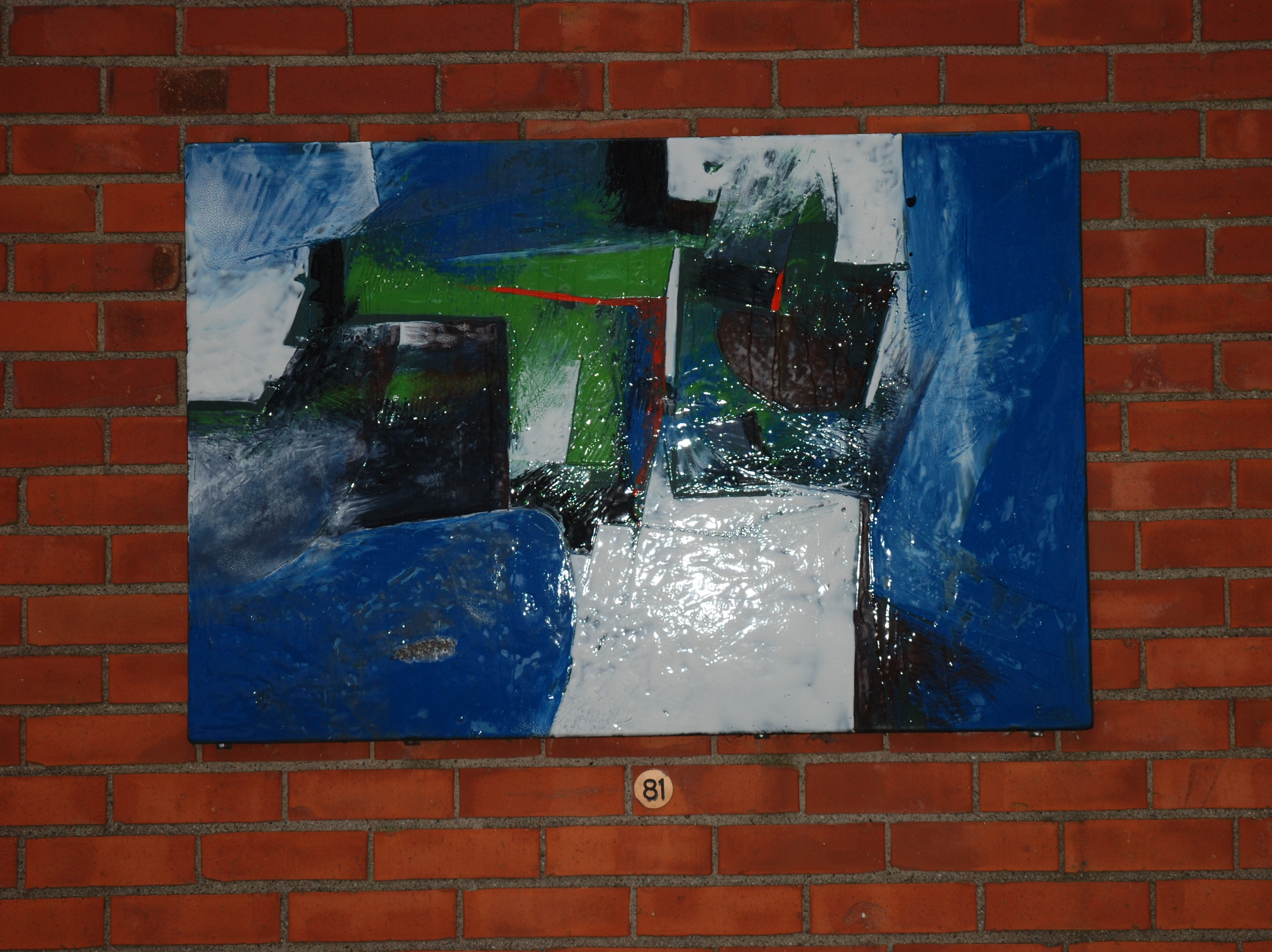 Enamel painting by Eje Öberg, Vår Gård at Saltsjöbaden, Sweden.